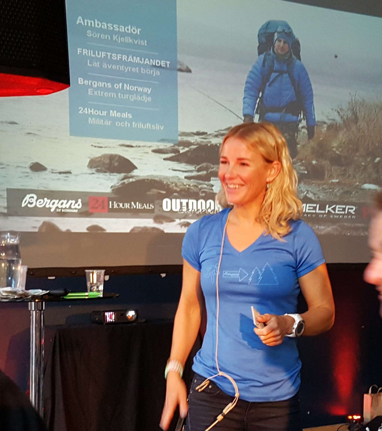 Annelie Pompe, professional adventurer, after a speech in Göteborg, Sweden, 2016